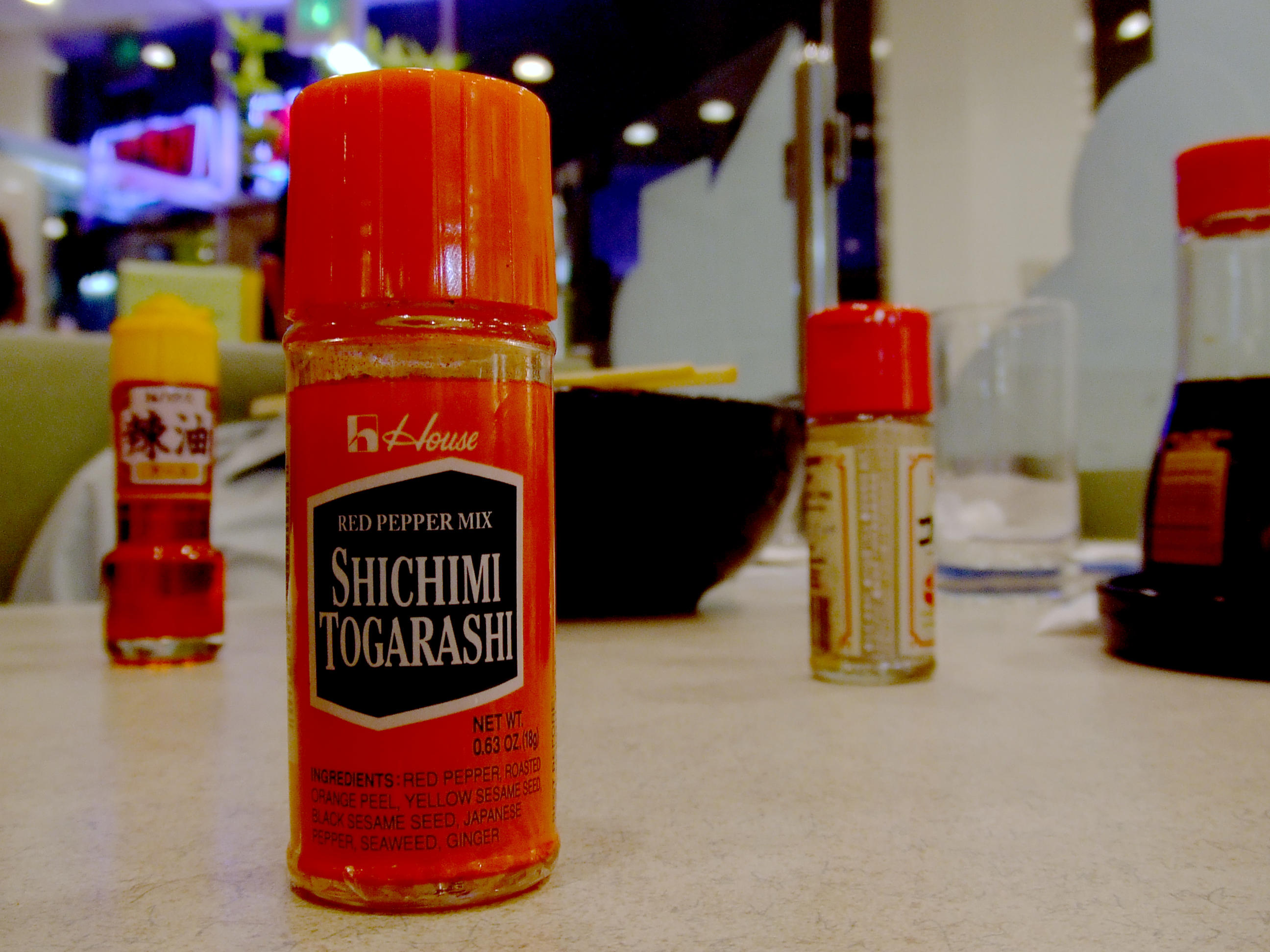 If only Costco sold Japanese condiments, then I could buy the quantity I desire. Taken at Ebisu